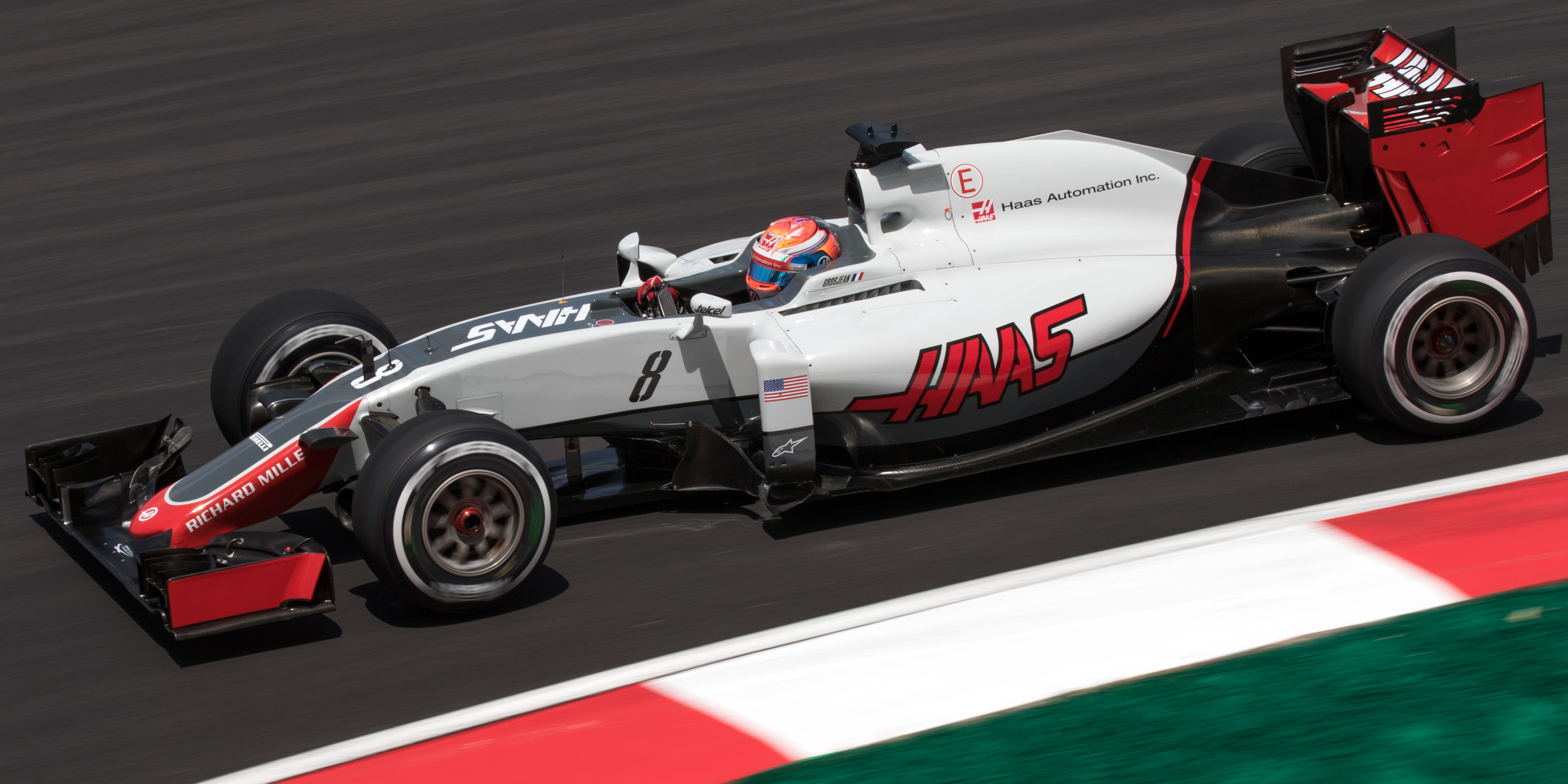 Formula One 2016 Rd.16 Malaysian GP: Romain Grosjean (Haas F1 Team)